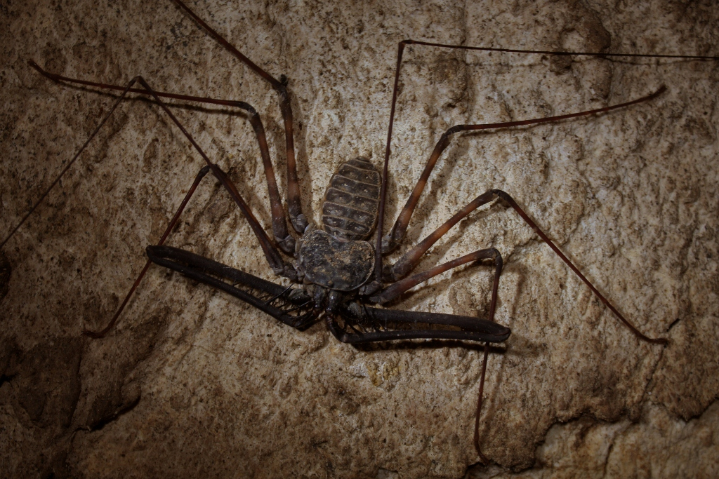 Found in a cave near to the Loboc river on Bohol, I don't even know where to begin trying to identify my Philippine invertebrates.